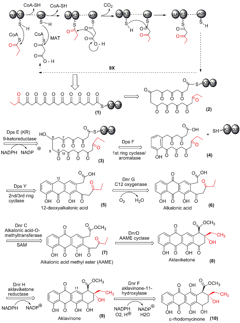 Biosynthesis of Anthracycline aglycone - e-rhodomycinone